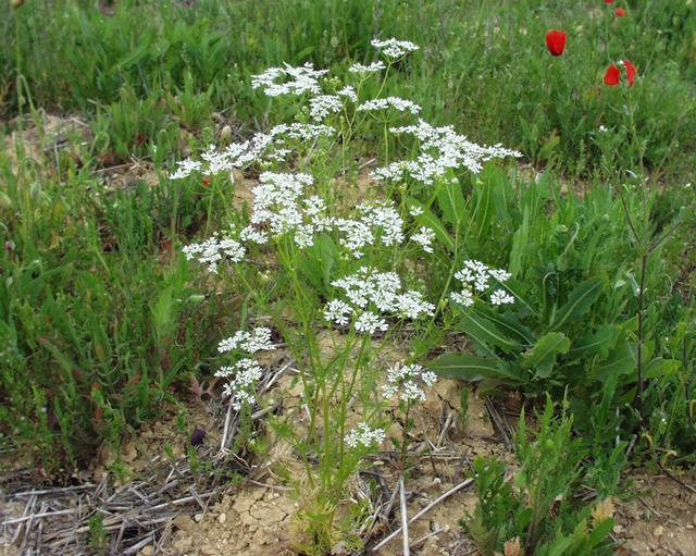 (en) (Gb)Wild Bishop (Bifora radians), a photography originating of the internet site The accord of the autor, H. Brisse, is here. (fr) Bifora rayonnant (Bifora radians), une photographie issue du site internet L'accord de l'auteur, H. Brisse, se situe ici. (It)Coriandolo puzzolente (Bifora radians) (De)Strahlender Hohlsame (Bifora radians) (Nl)Holzaad (Bifora radians)